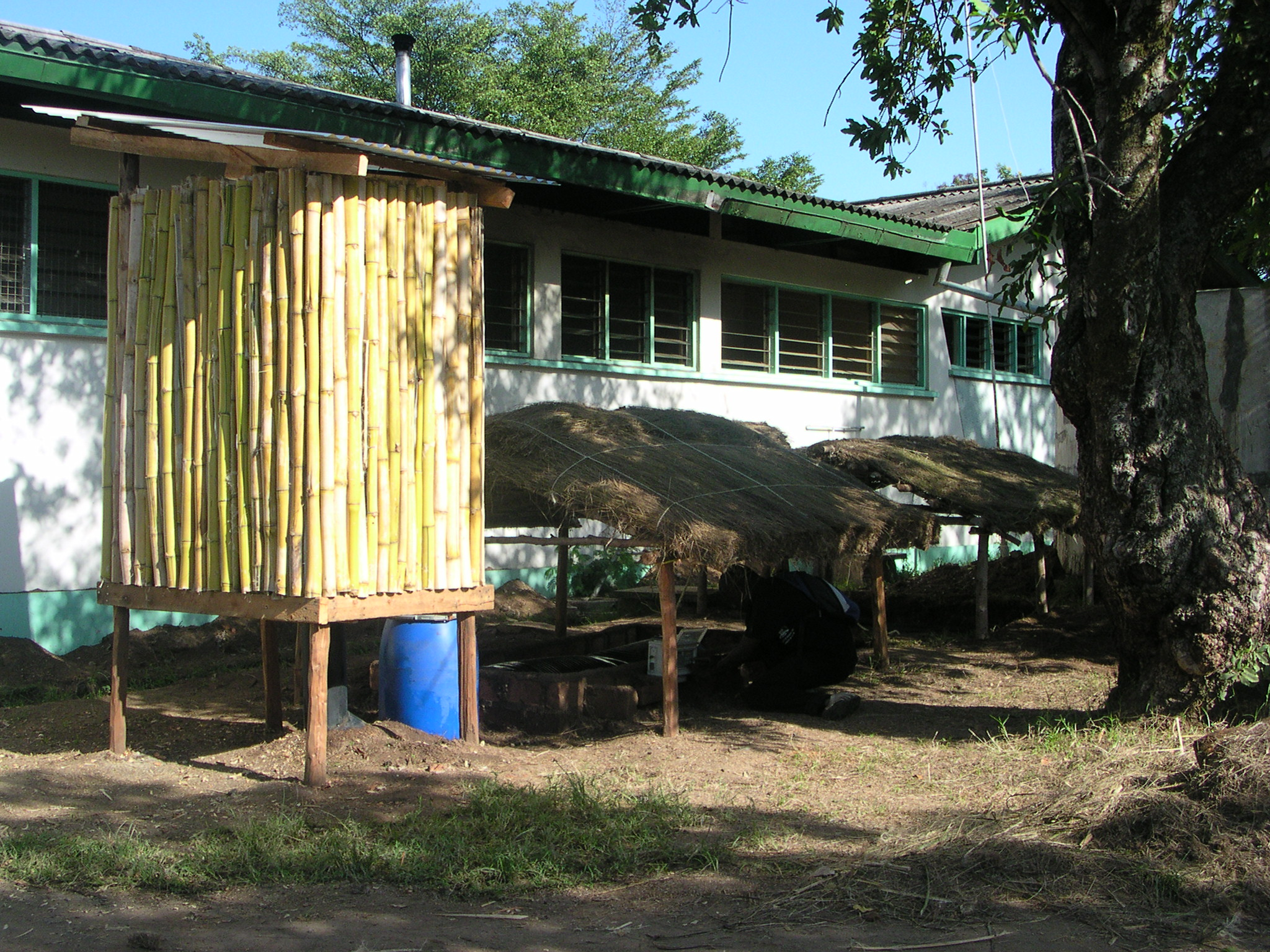 Overview of prototype plug flow digester. The prototype was financed by Swedish SIDA in 2007 in order to evaluate small scale biogas in combination with constructed wetlands and slow sand filters. Everything is in place (except stairs into the latrine). The gas storage is a bladder made from EPDM rubber, located under the second roof. Location: Kendu Bay, 80 km from Kisumu (Kenya). Photo by Sören Säf, May 2010.